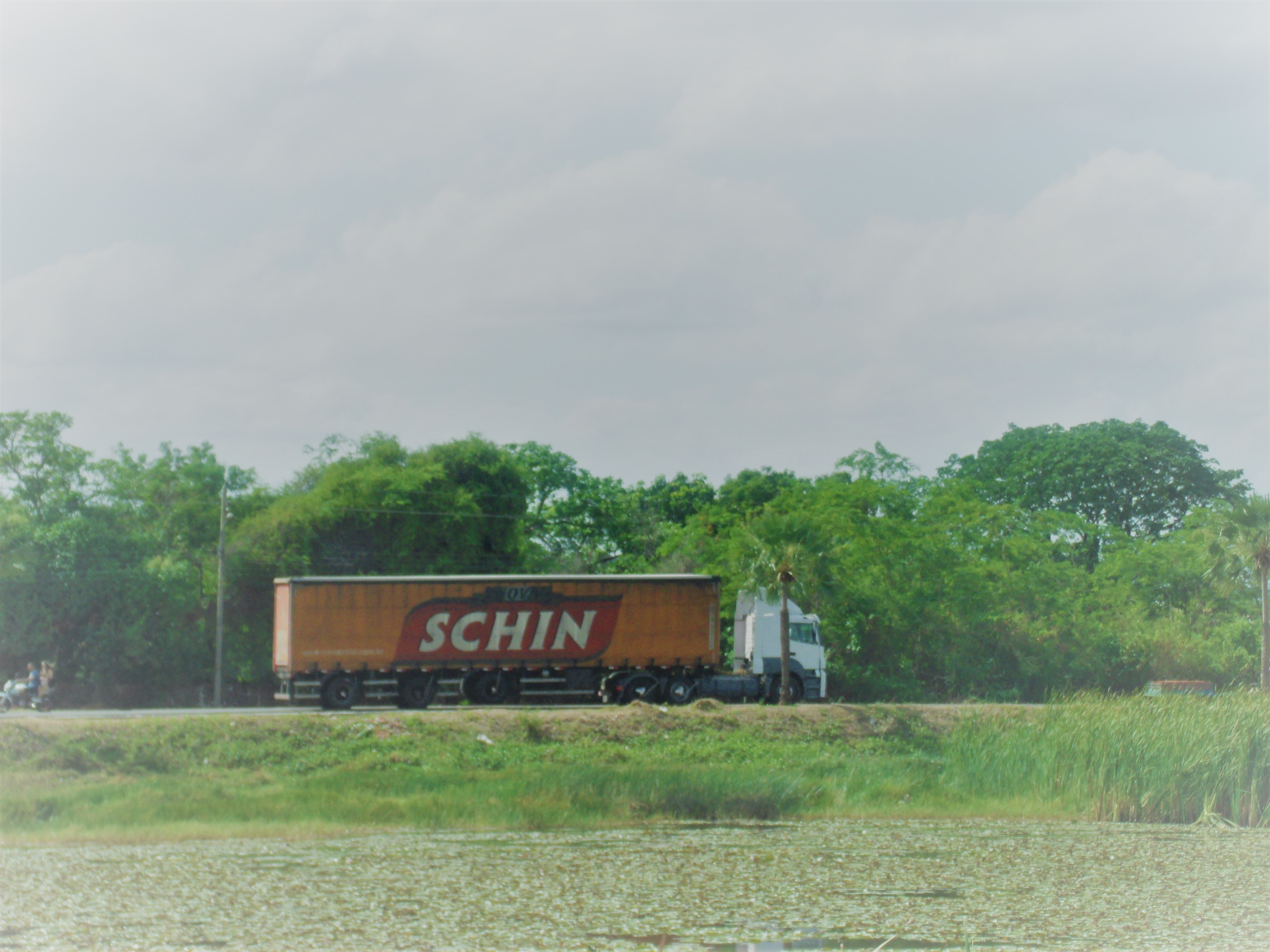 Kirin Brewery Company in Piauí.